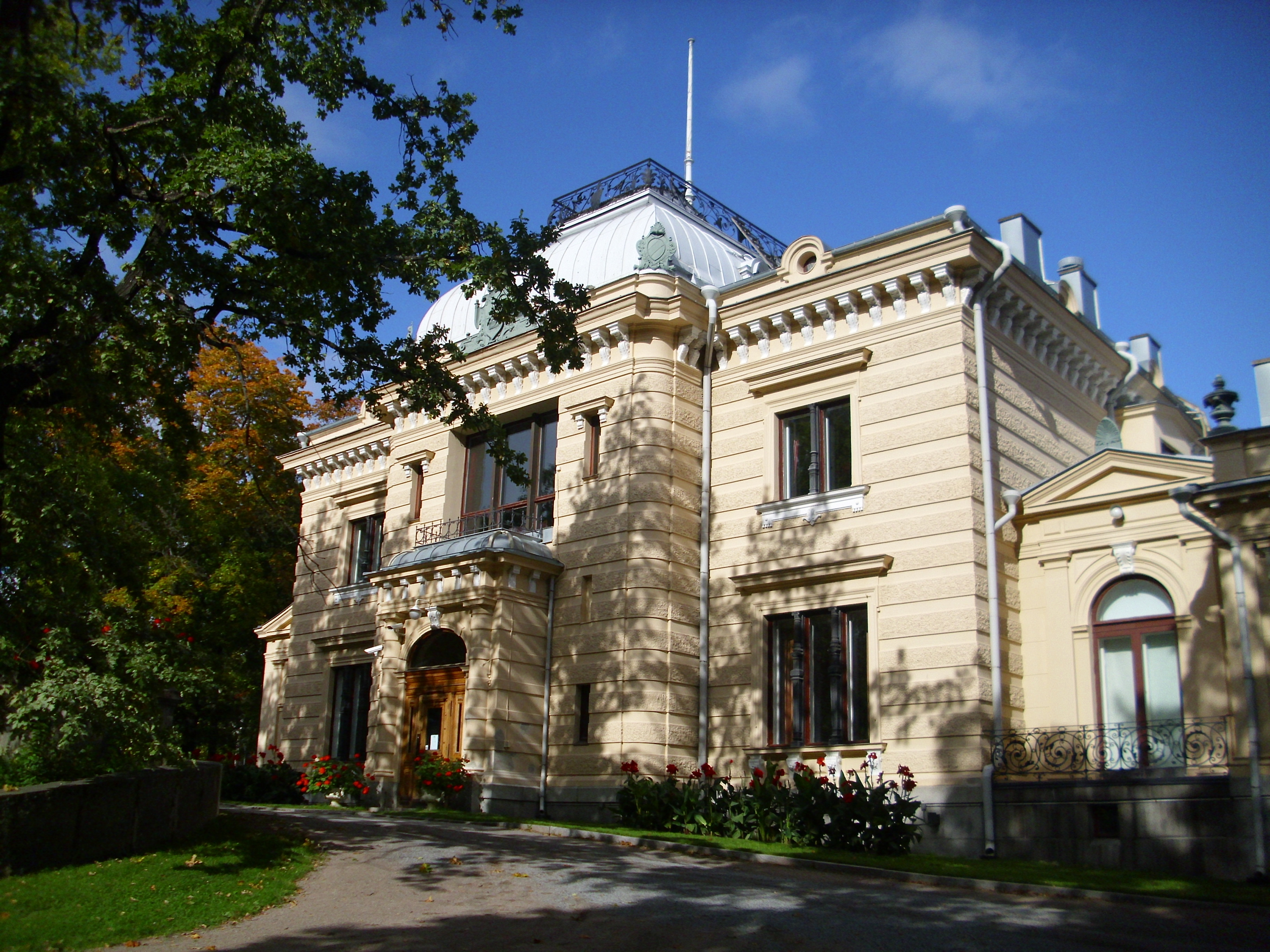 Finlayson Palace, Tampere, Finland check usage Address Finlaysonin palatsi Kuninkaankatu 1 33210 Tampere Finland Date17 September 2009SourceOwn work. (→ weitere 2,019 Bilder von mir in der Galerie)AuthorStefan FlöperPermission (Reusing this file) cc-by-sa-3.0, gfdl 1.2+